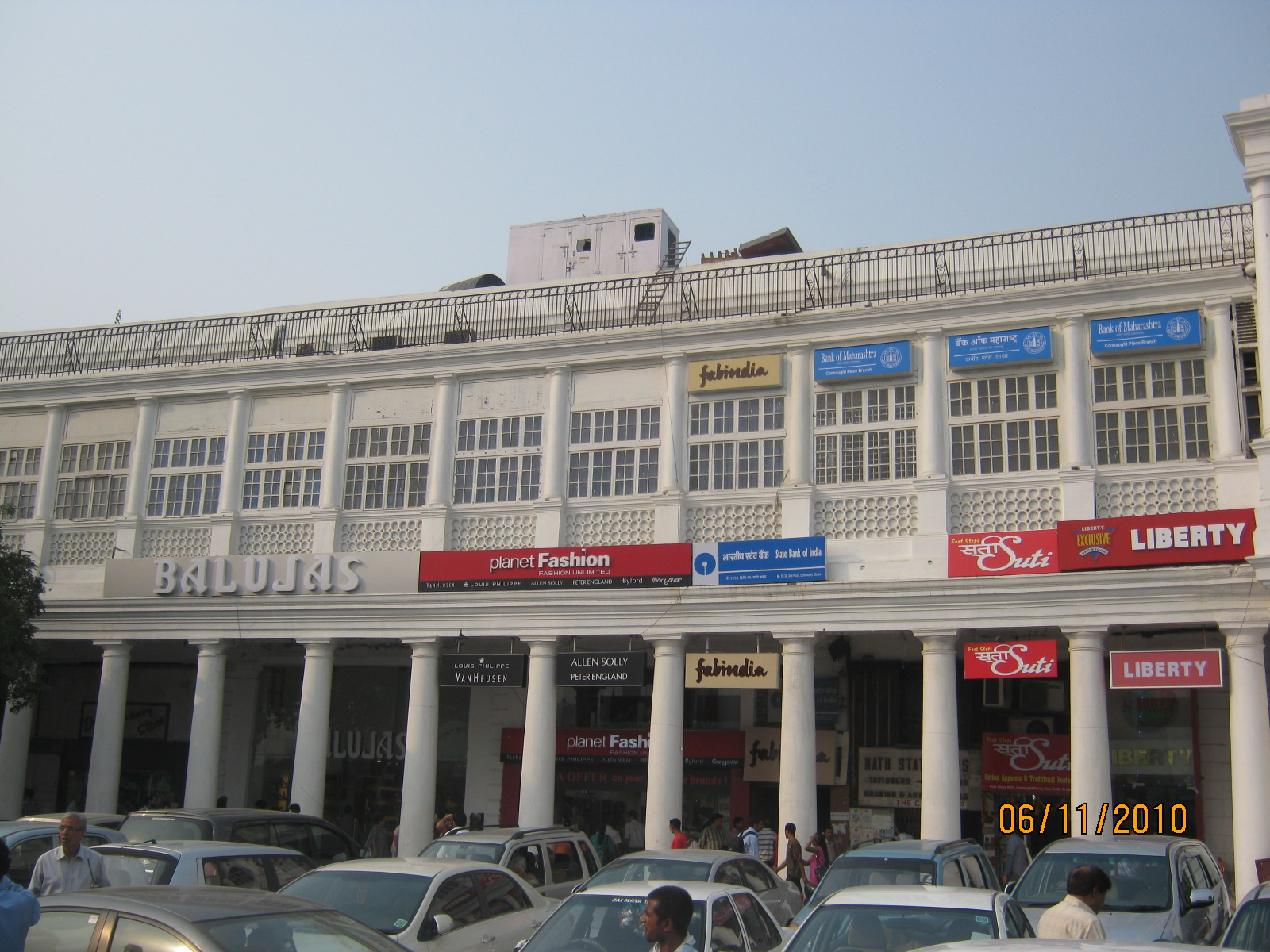 A view of the Connaught Place market.